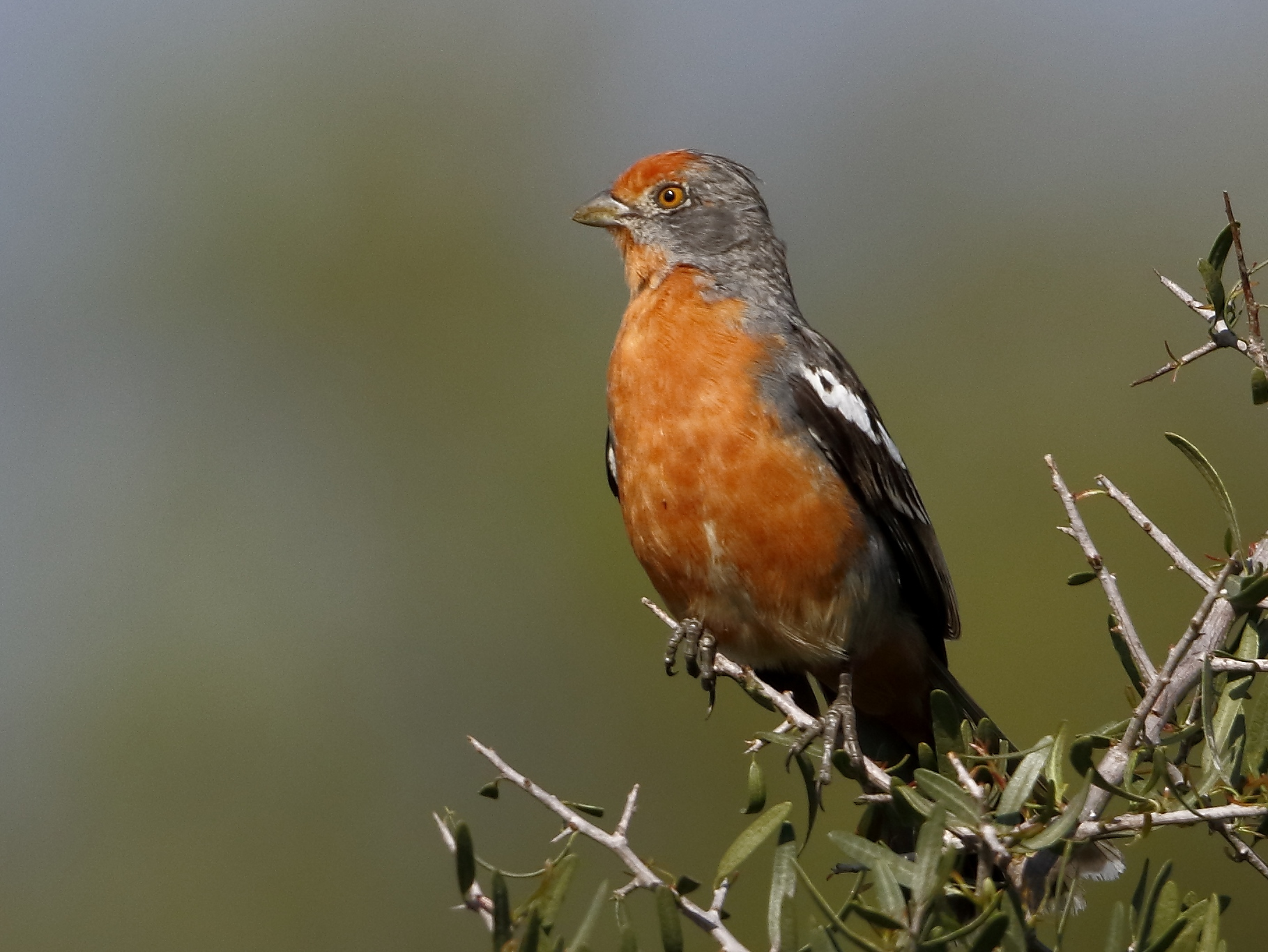 White-tipped plantcutter (male), Mar Chiquita, Córdob, Argentina